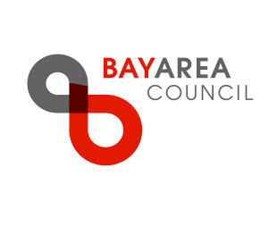 logo of the Bay Area Council, a San Francisco Bay Area business association promoting economic development in the region.